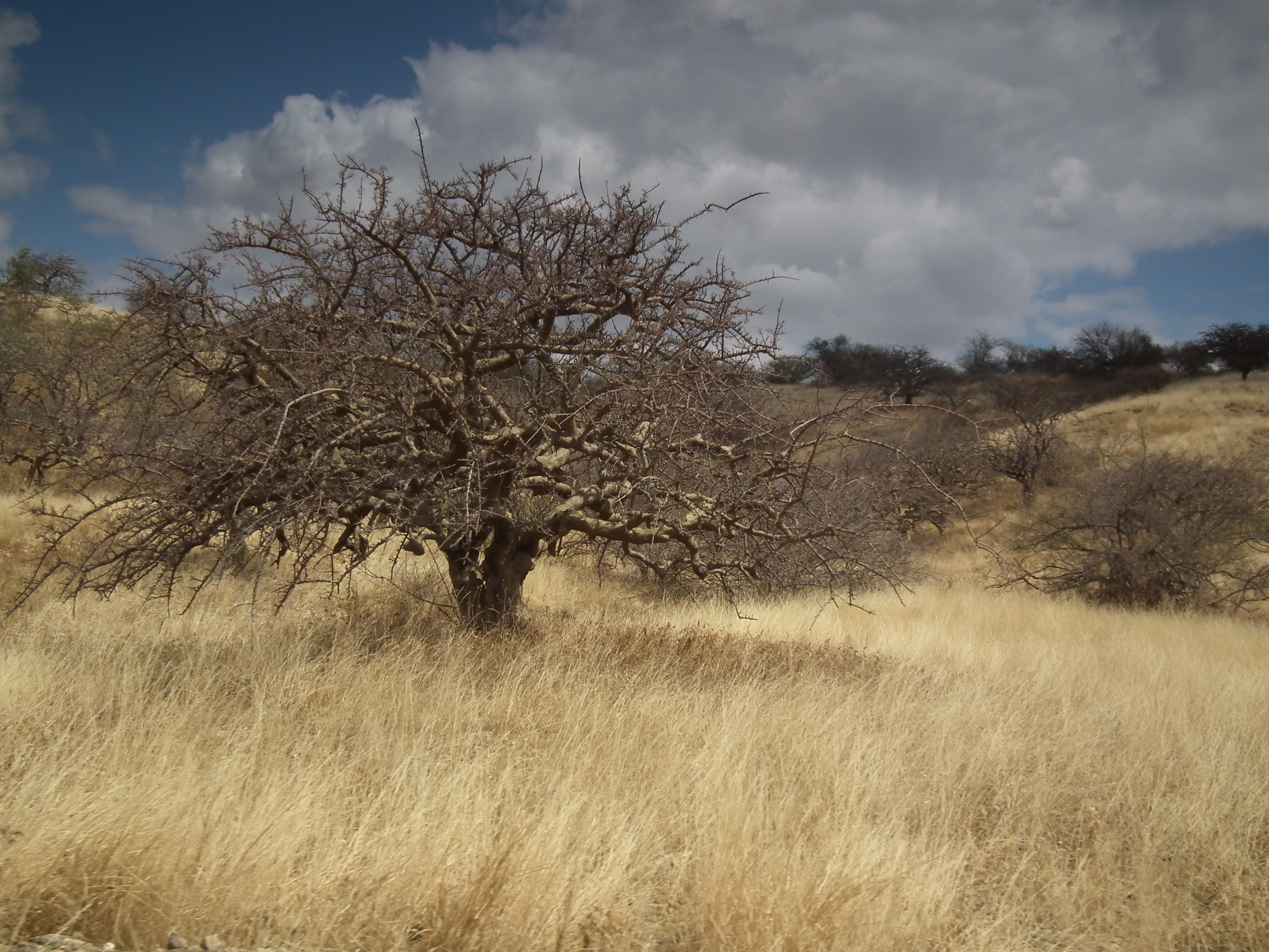 Flora of Tanzania. picture taken in Tanzania